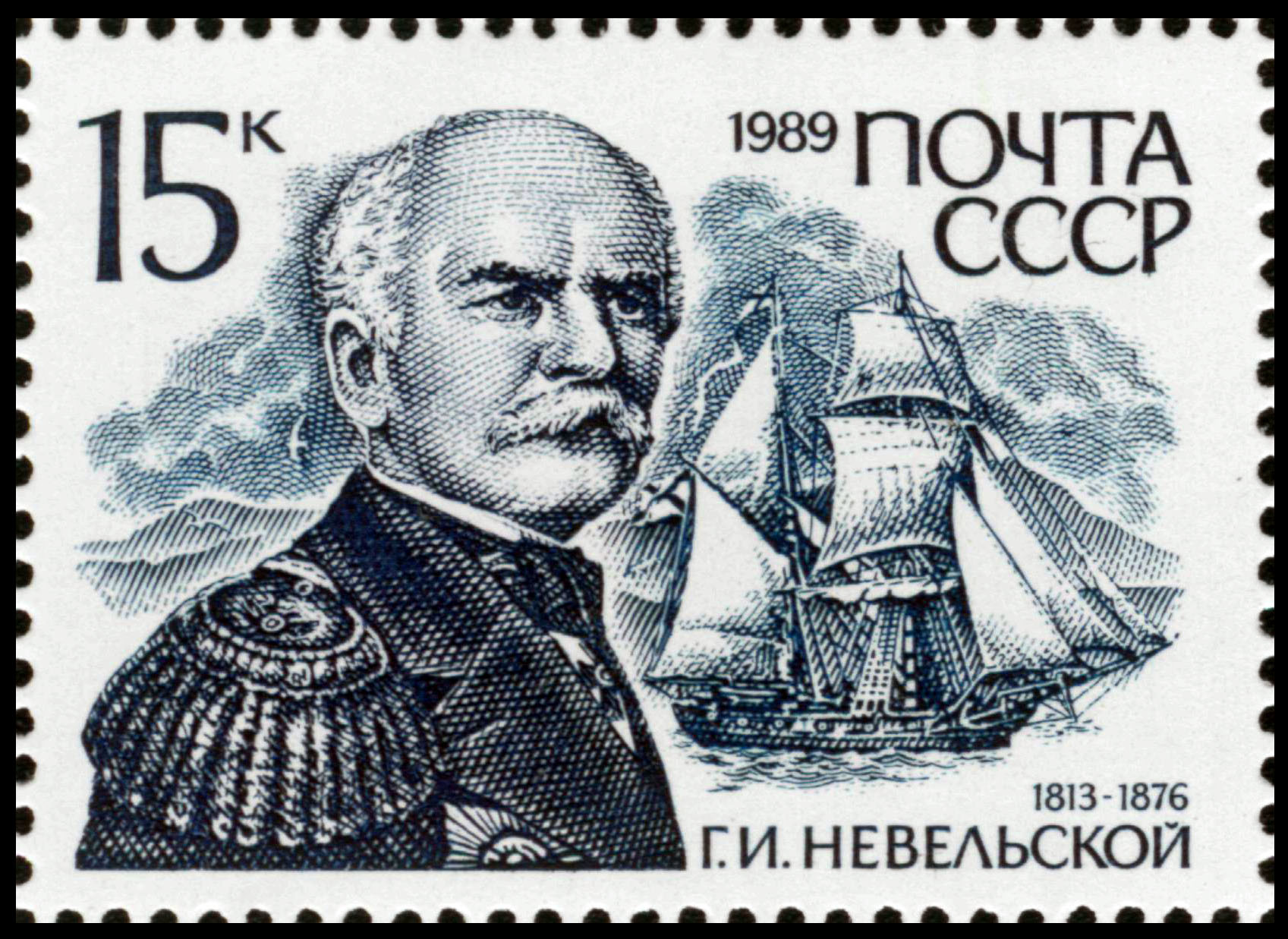 Russian Admirals. Nevelskoy. USSR stamp from a stamp sheet of 6 USSR stamps, Russian Admirals, 1989.